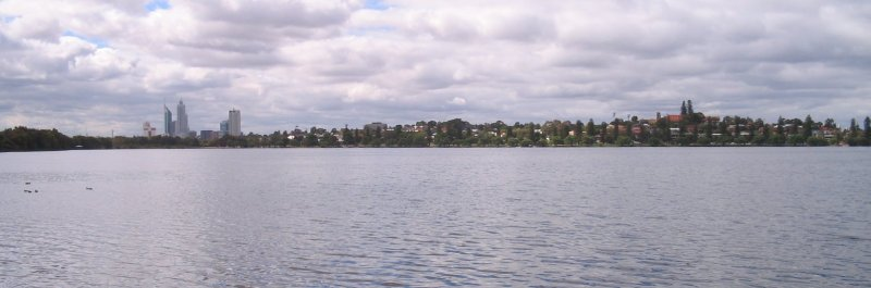 Photograph of Lake Monger looking south-east towards the city of Perth, Western Australia.